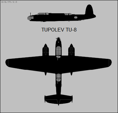 2-view silhouettes of the Tupolev Tu-8